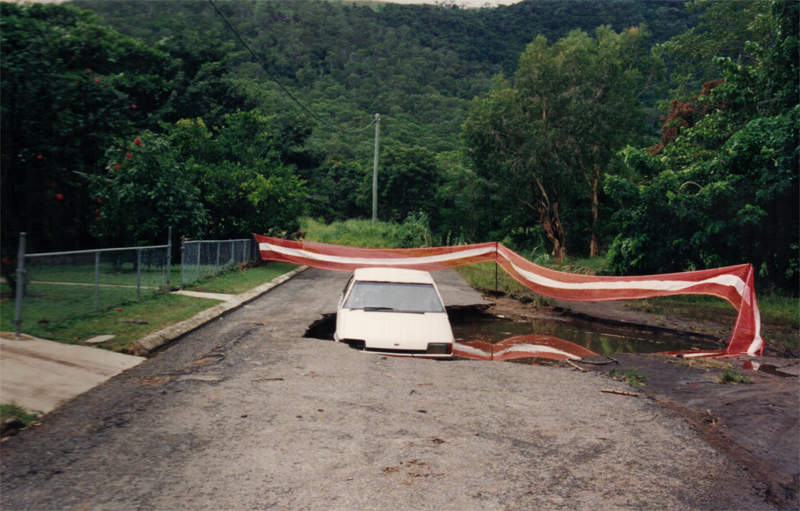 Photographed by me 1996